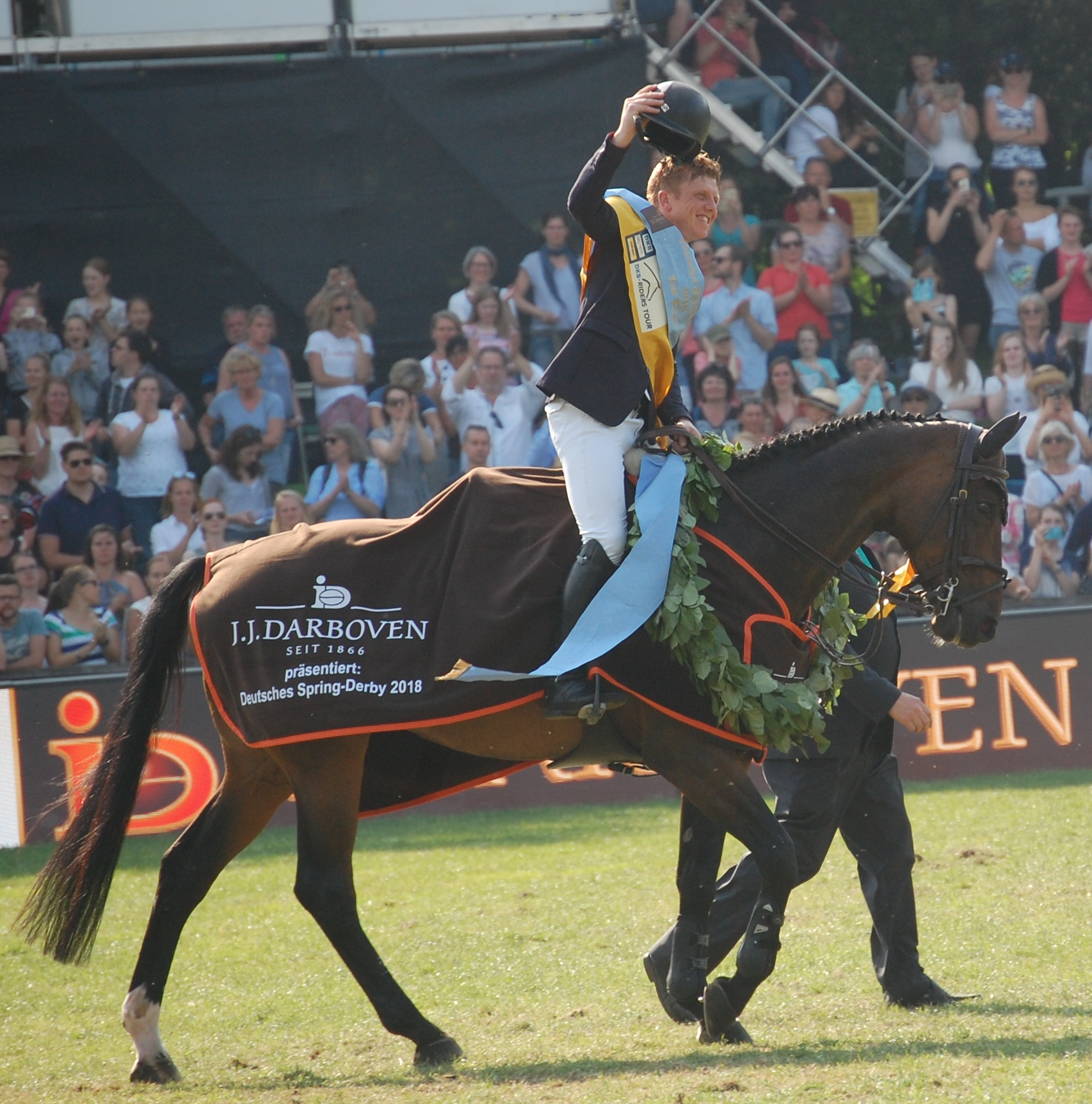 British rider Matthew Sampson and Gloria van Zuuthoeve, winner of the 89th German show jumping derby, Hamburg 2018.